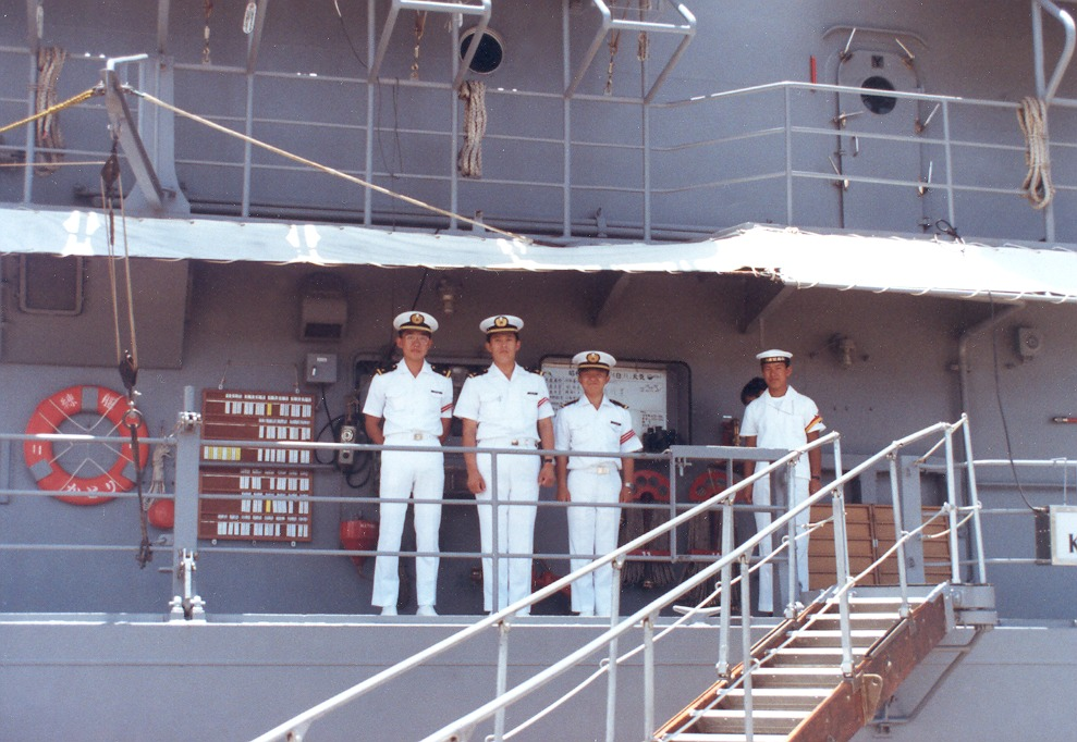 Quarterdeck of the Japanese training cruiser Katori. View from the pier.